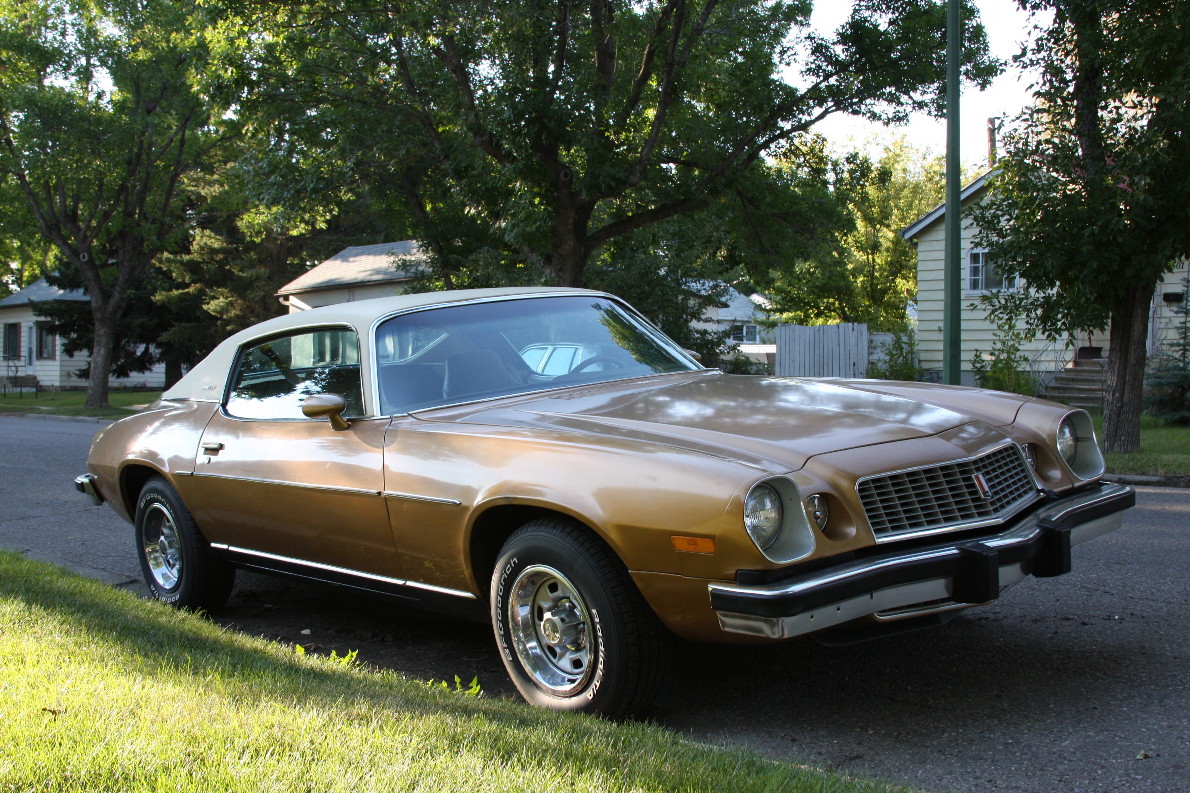 Chevrolet Camaro LT in fantastic original shape. Haven't seen one sporting a vinyl roof for a quite a while.